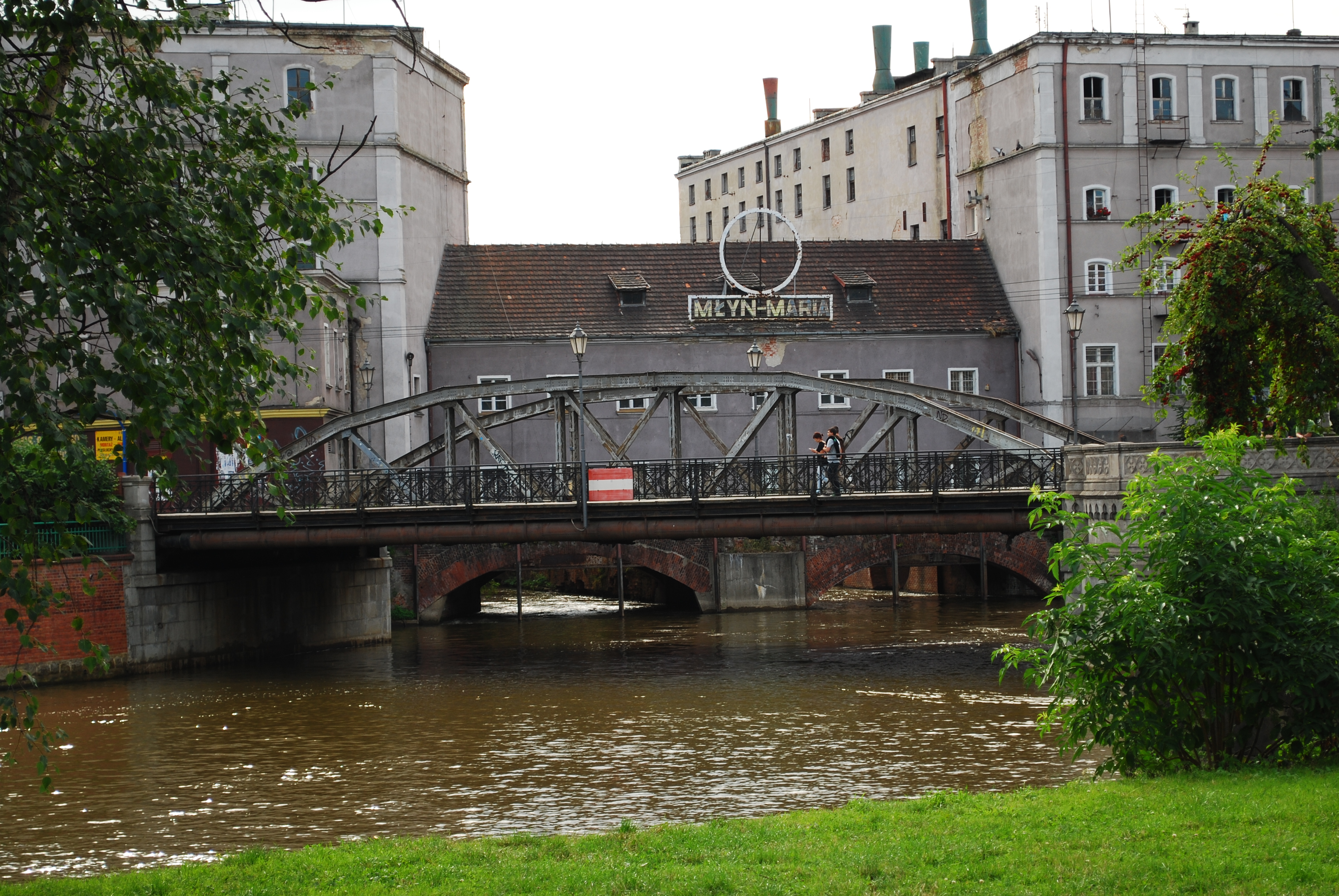 Mill Island on Oder river in Wrocław, PolandRomână: Insula Morii de pe râul Odra, în Wrocław, Polonia